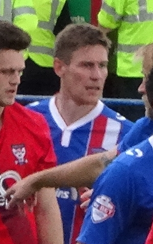 Antony Sweeney playing for Carlisle United against York City at Bootham Crescent, York on 19 September 2015